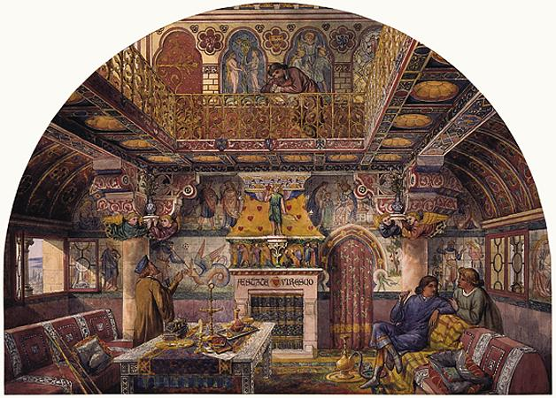 Design for the Summer Smoking Room at Cardiff Castle. Watercolour by Axel Herman Haig from drawings by William Burges.